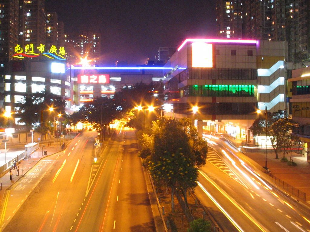 屯門市廣場夜景 Night scene of Tuen Mun Town Plaza